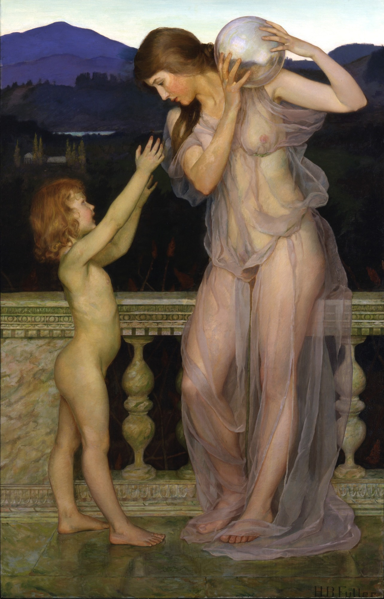 Illusion